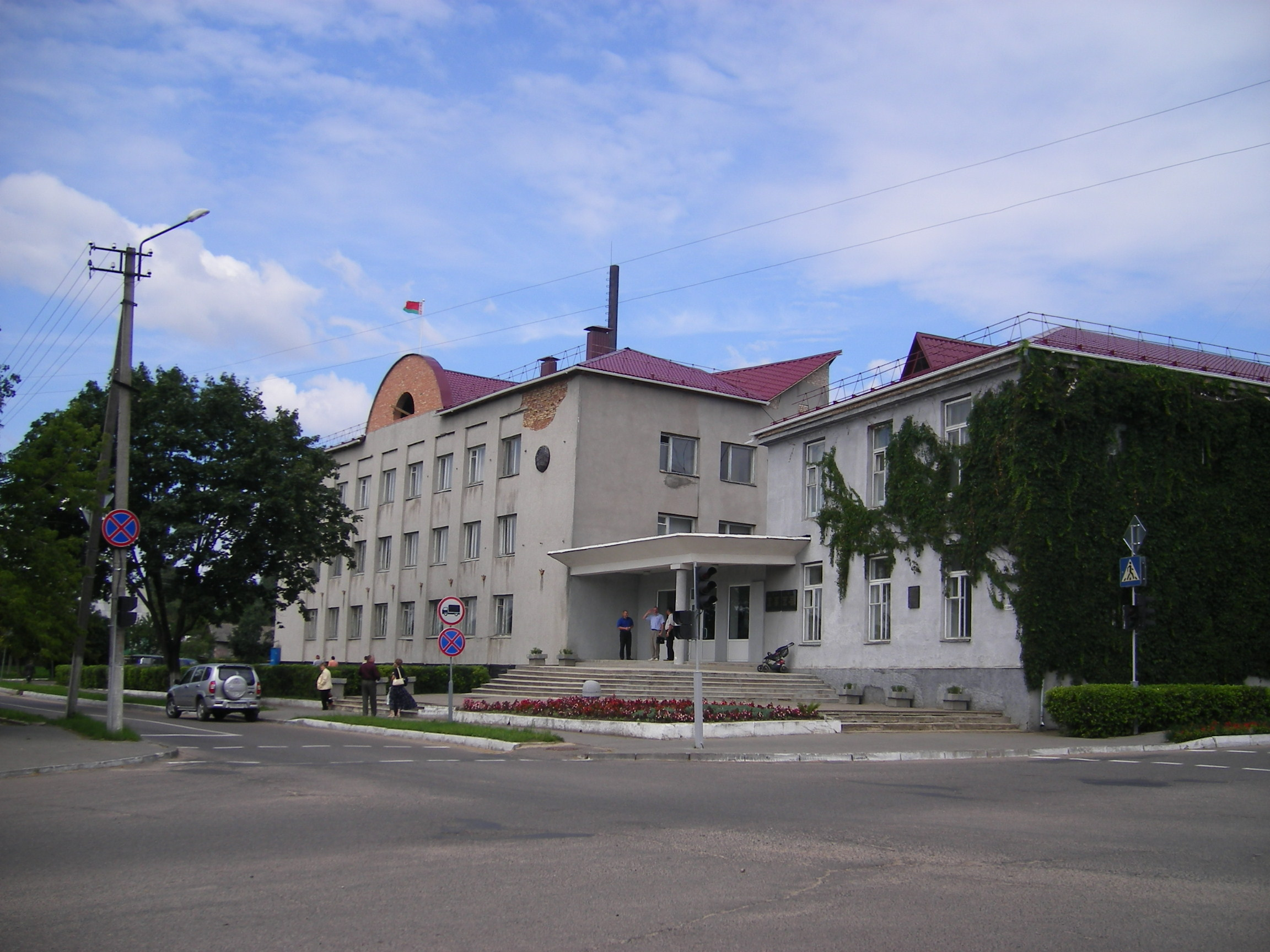 Stowbtsy Raion Administration Building